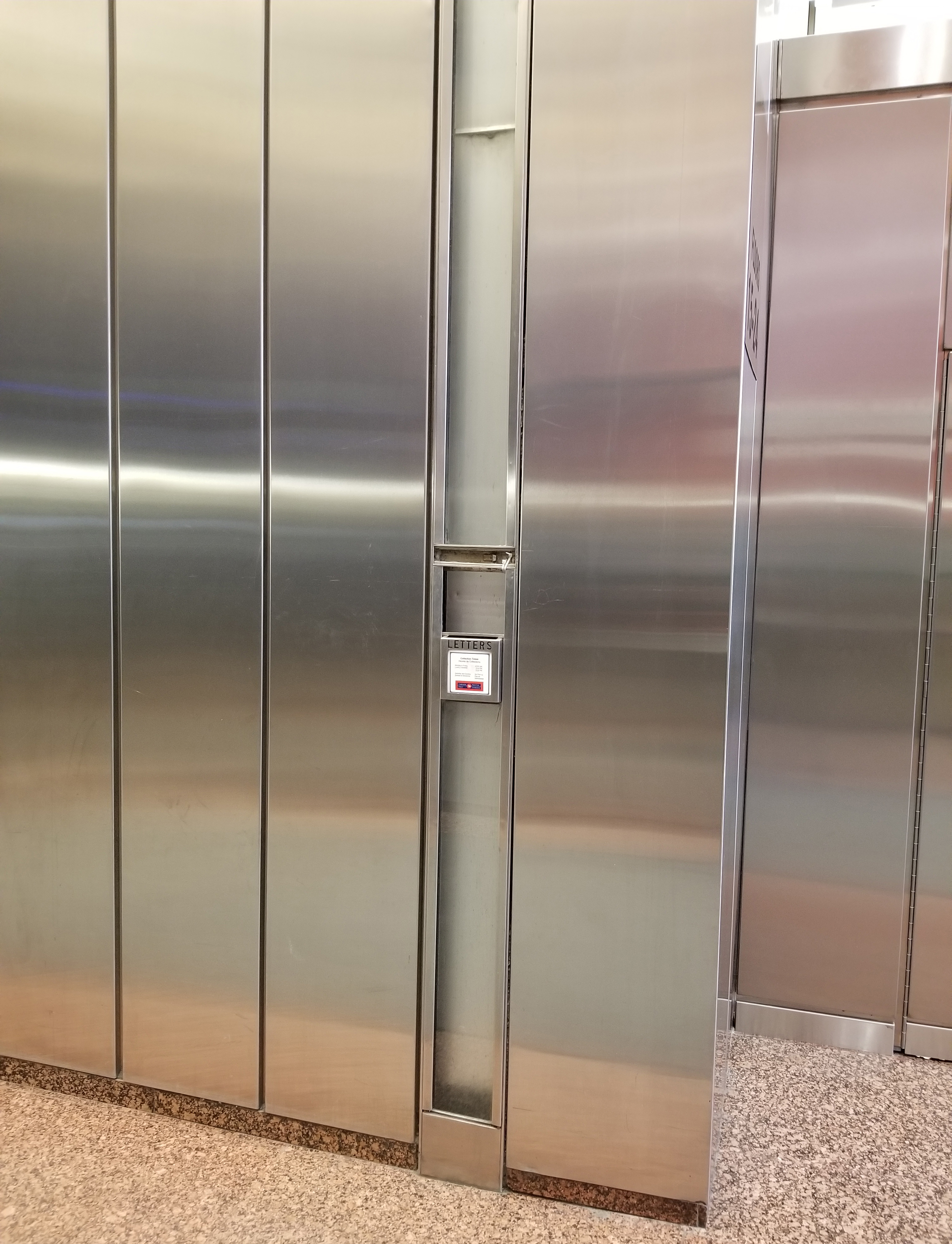 Stelco Tower lobby mail chute